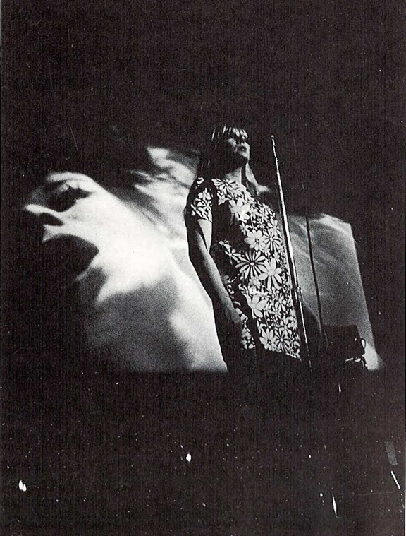 Photograph taken at a performance of Andy Warhol's "Exploding Plastic Inevitable" featuring Nico, at the University of Michigan campus in Ann Arbor.